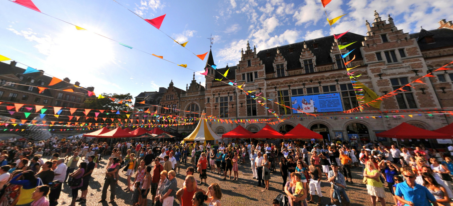 the Theatre Square (Schouwburgplein) in Courtrai/Kortrijk during the annual Summer Carnival